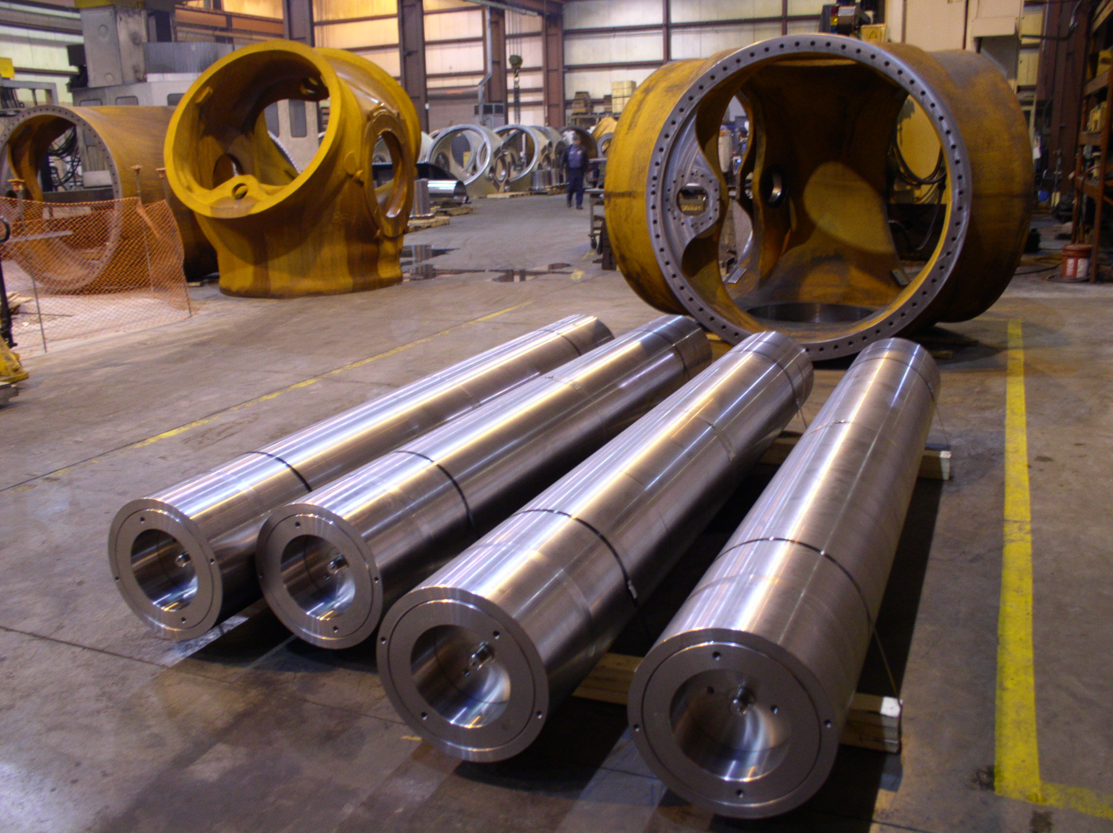 80 gallon piston accumulator, 6500 psi